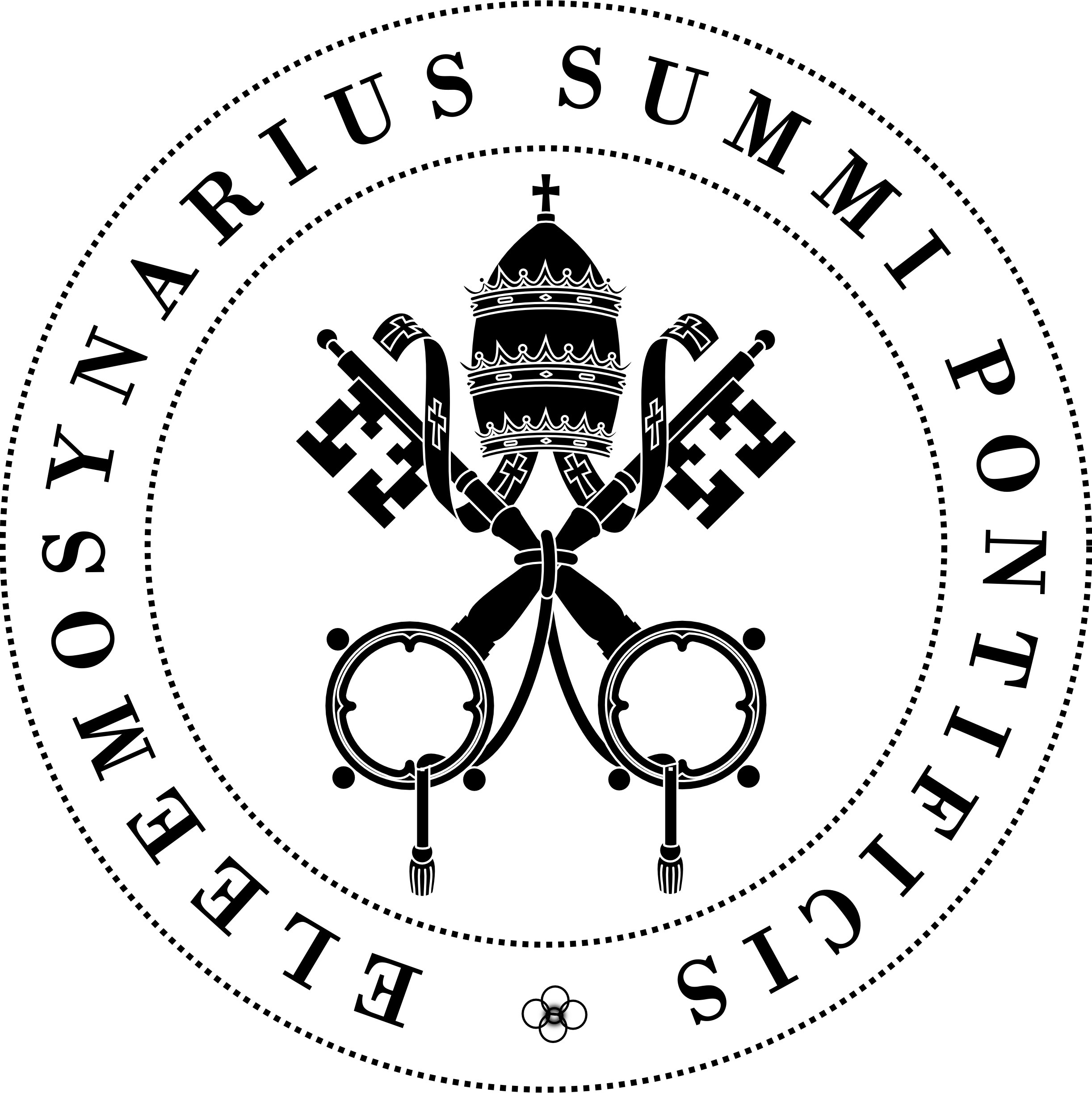 Seal of Papal charities